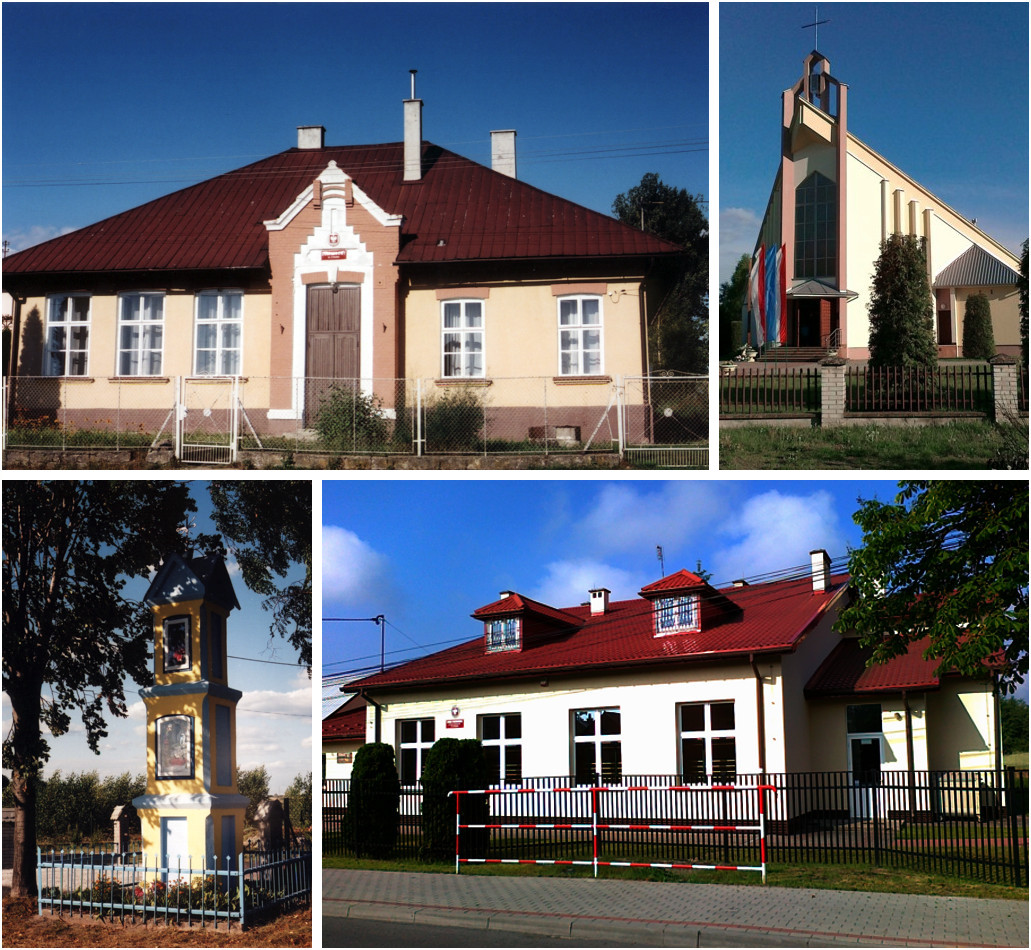 Styków